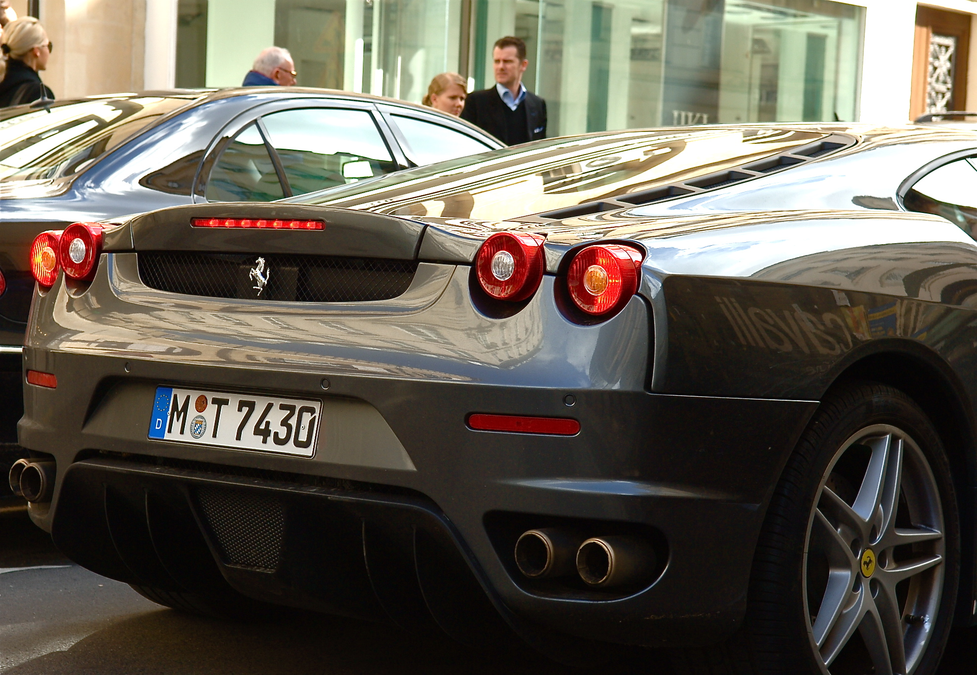 The Ferrari F430.